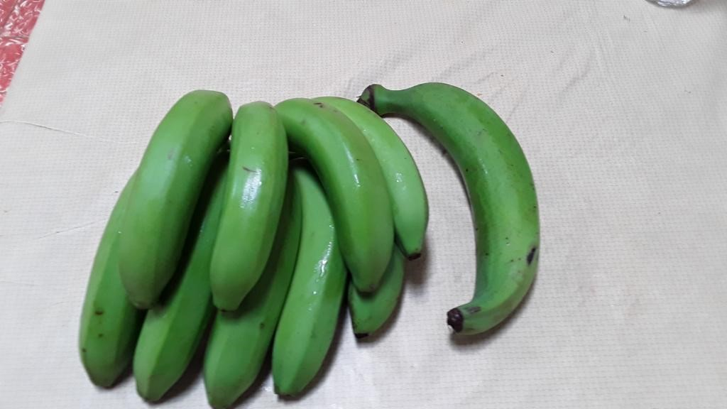 Bunch of cooking bananas (guineos) and one loose plantain